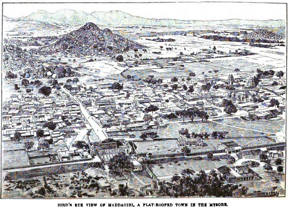 Bird's Eye View of Maddagiri, A Flat-Roofed Town in Mysore (p.121, 1890), London Missionary Society